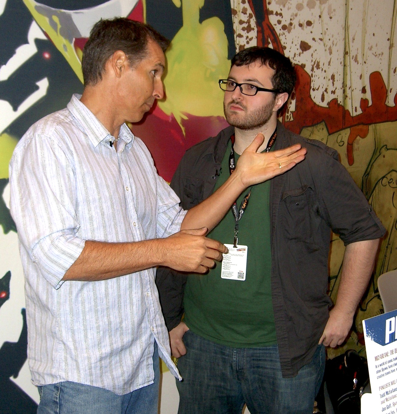 Comics creator Todd McFarlane at the Image Comics booth at the New York Comic Con, October 15, 2011. This photo was created by Luigi Novi. It is not in the public domain, and use of this file outside of the licensing terms is a copyright violation.